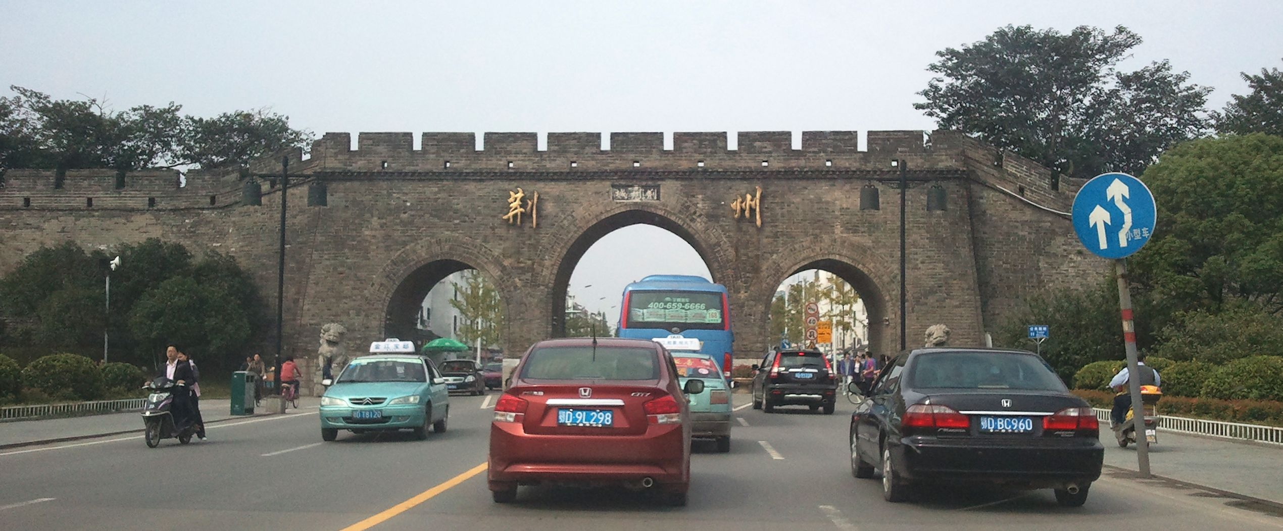 East gate of the old Jingzhou city, Hubei province, China.